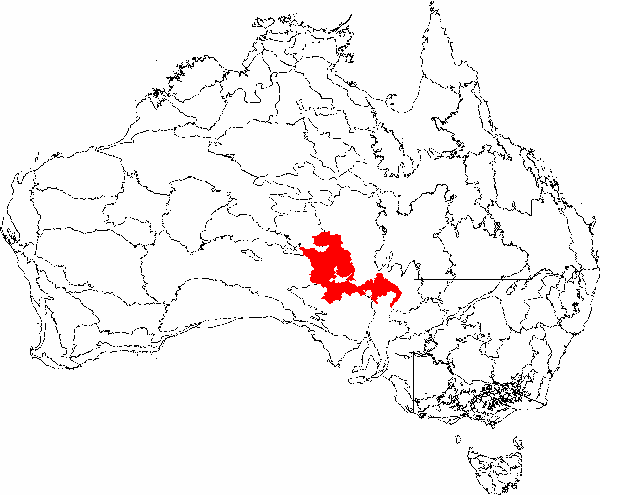 This is a map of the Interim Biogeographic Regionalisation of Australia (IBRA), with state boundaries overlaid. The Stony Plains region is shown in red.